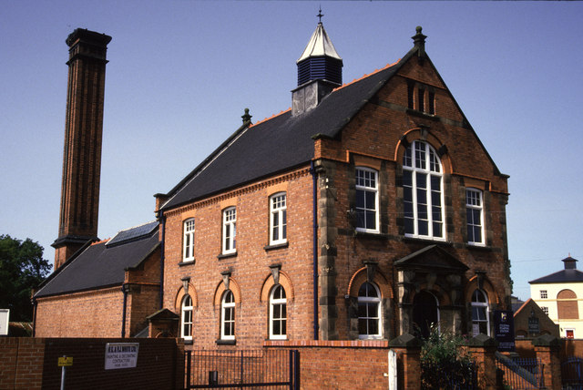 Coleham Sewage pumping station, Shrewsbury Home to two preserved beam pumping engines that can be run under steam.